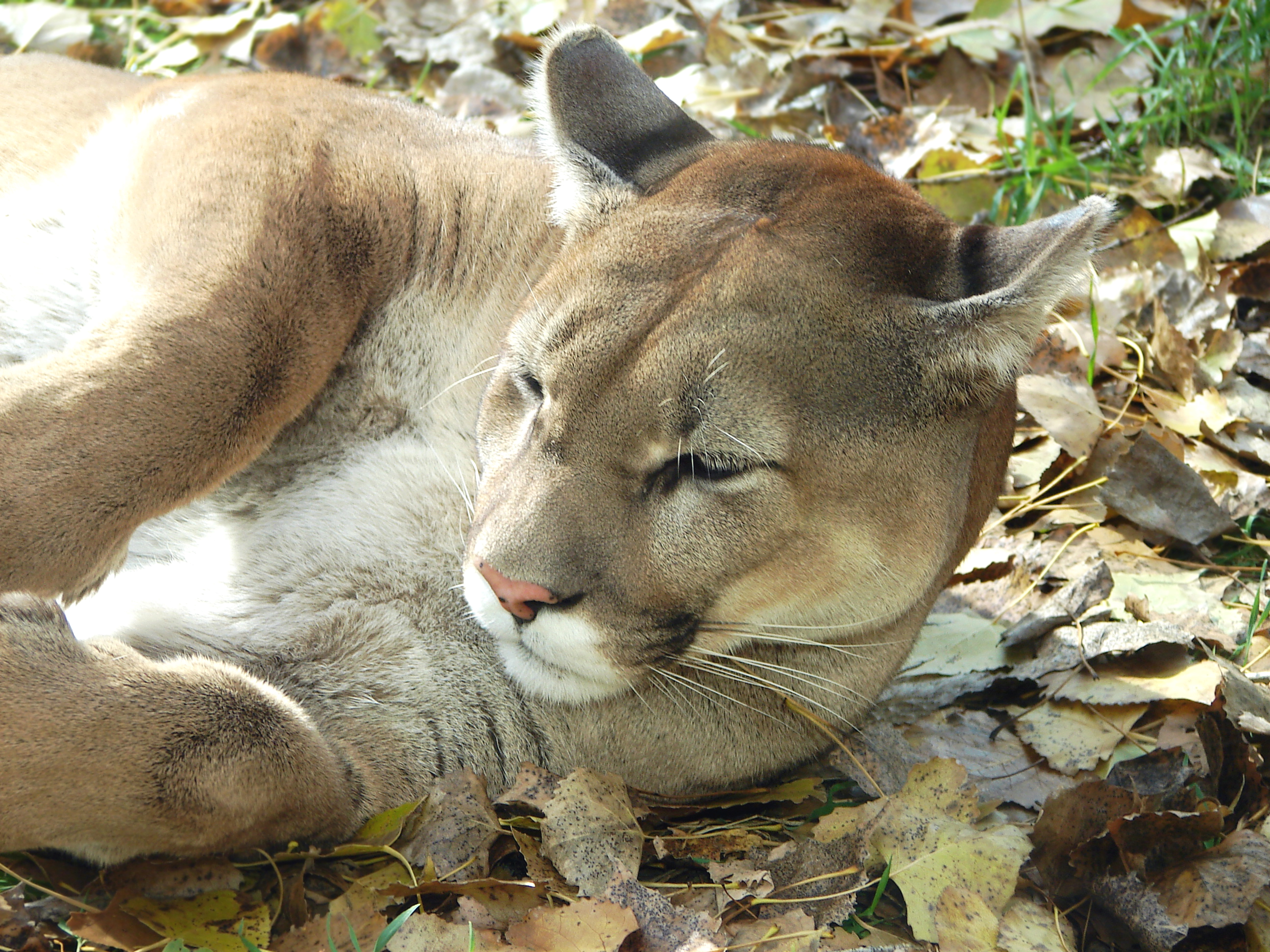 A cougar at the Dakota Zoo in Bismarck, North Dakota.